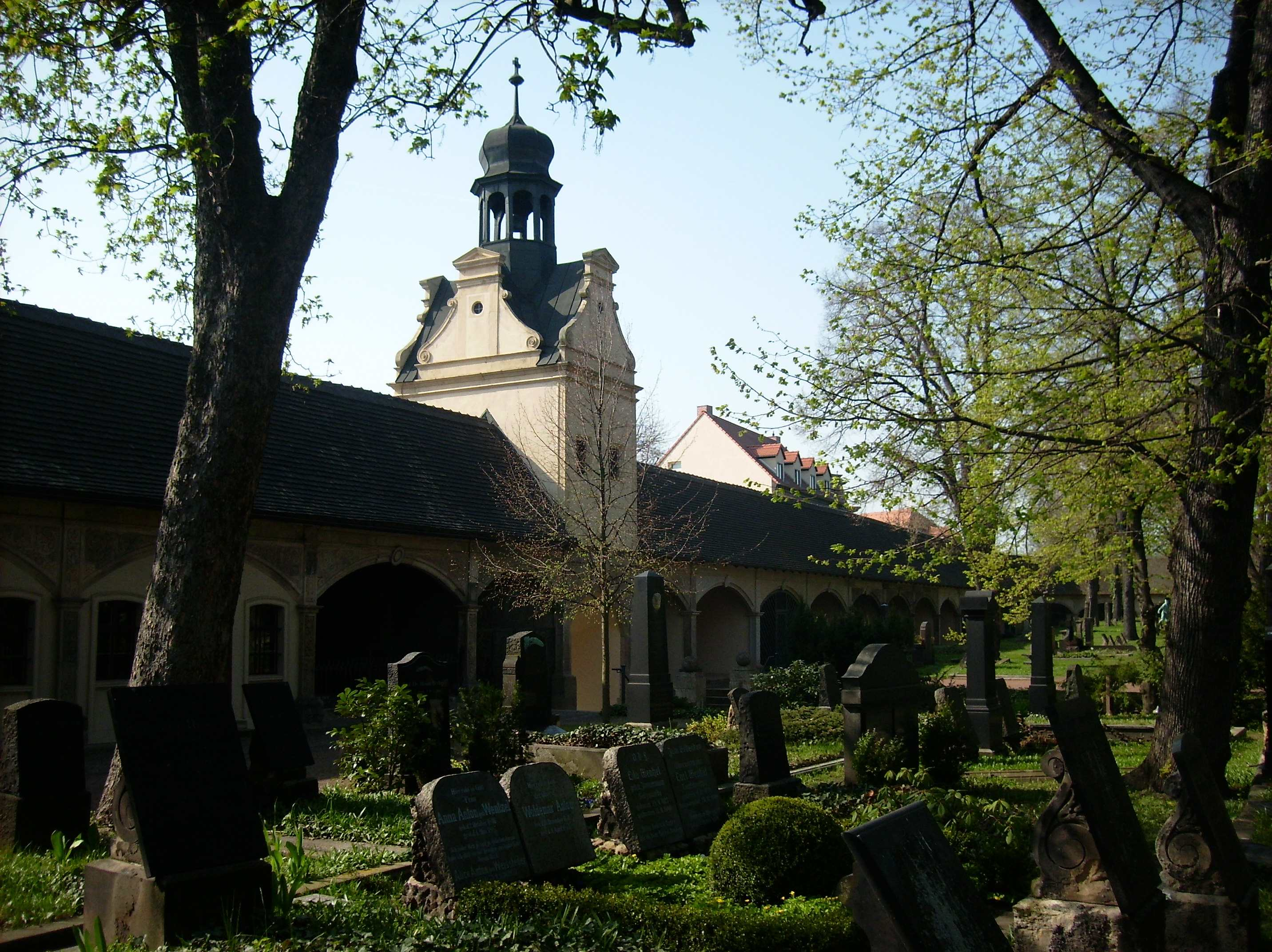 Gate-tower of the Stadtgottesacker cemetery in Halle/Saale (Saxony-Anhalt)